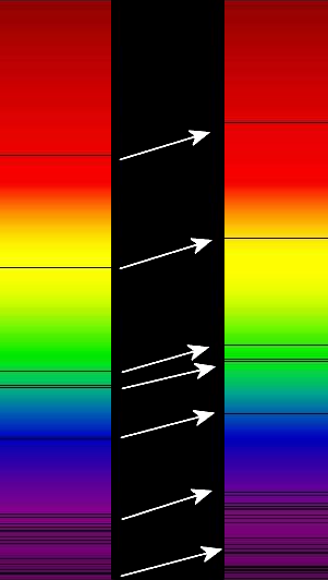 Absorption lines in the optical spectrum of a supercluster of distant galaxies (BAS11) (right), as compared to those in the optical spectrum of the Sun (left). Arrows indicating Redshift.